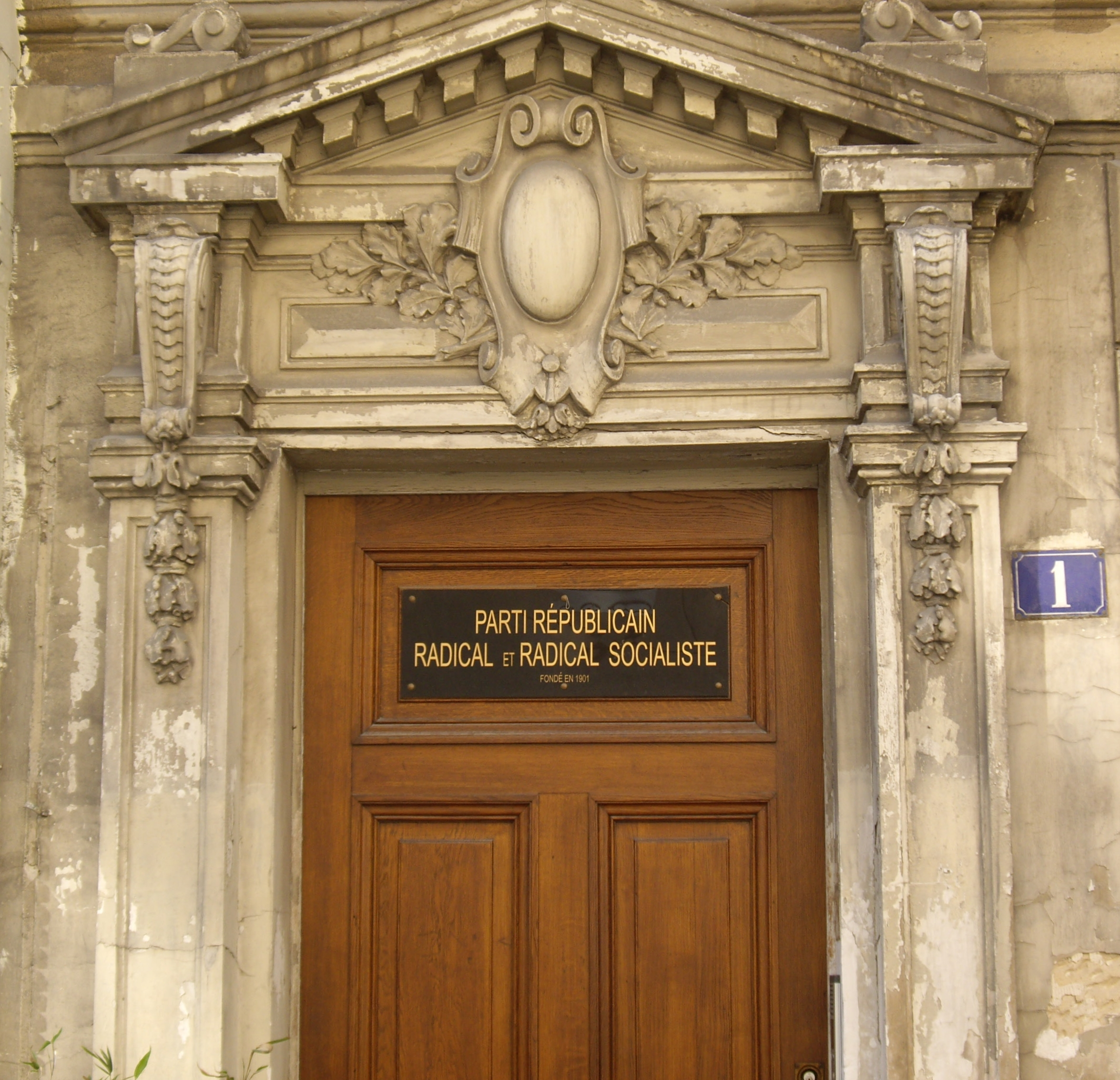 Headquarters of the French Republican, Radical and Radical-Socialist Party (1901), also known as the "Parti radical valoisien", at No. 1 Place de Valois, Paris Ier.